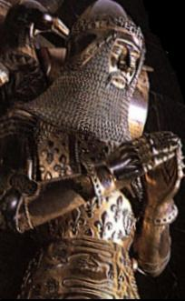 Edward, son of Edward III of England - tomb effigy from [1]